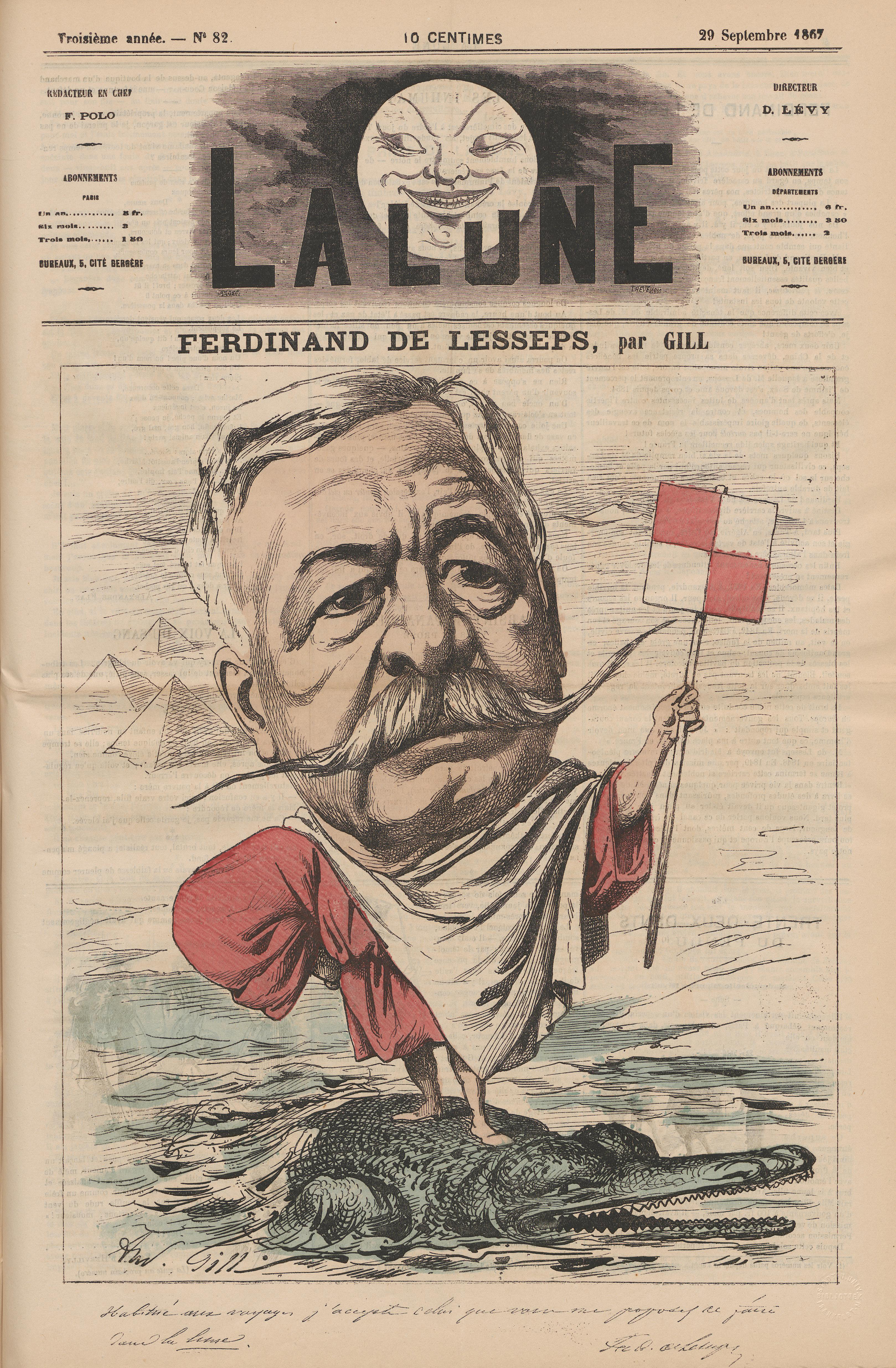 Caricature of Ferdinand de Lesseps Cover of La Lune 29 September 1867 Hand-colored Engraving 12"w x 18"h